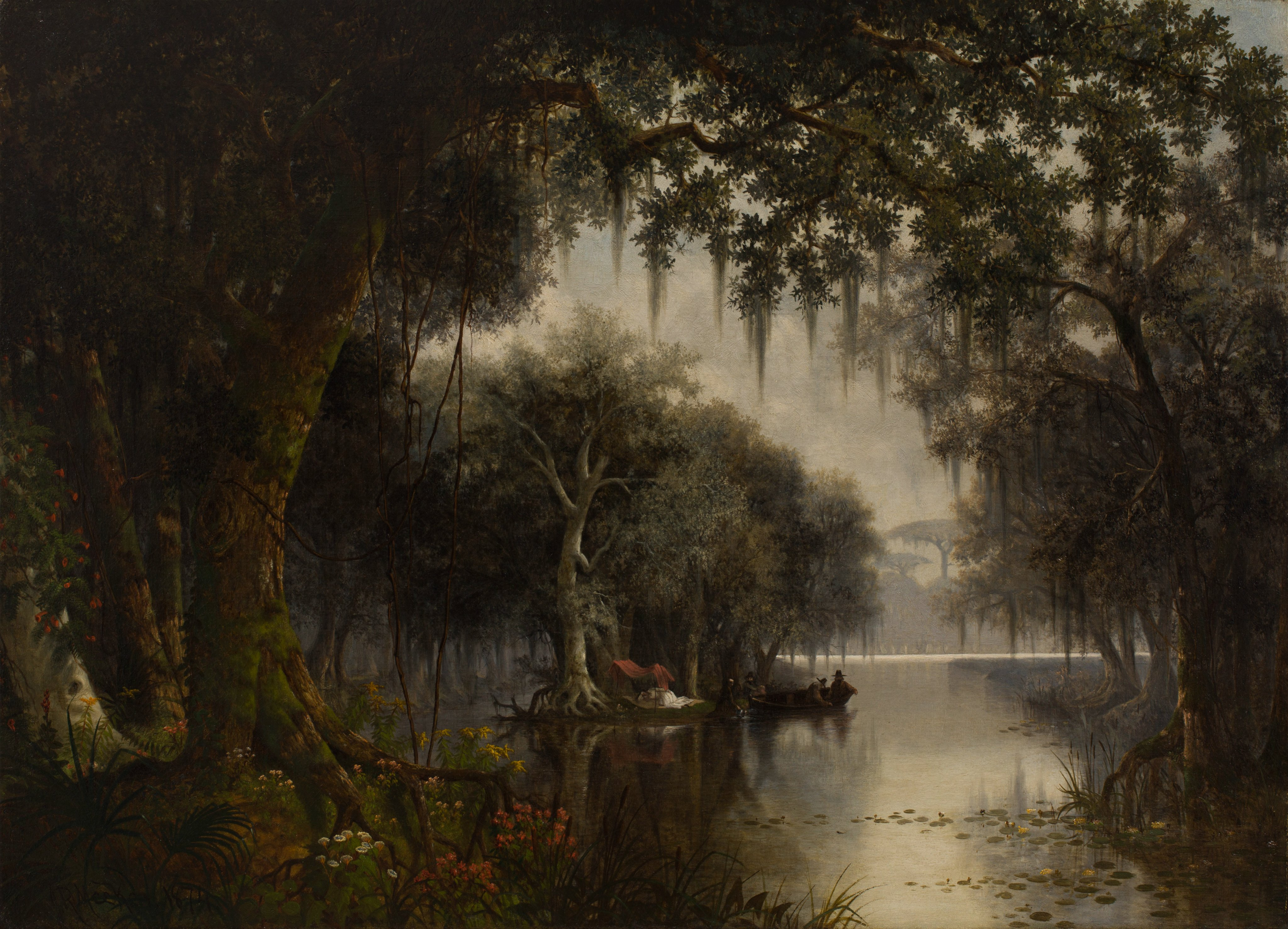 This painting depicts a scene from Henry Wadsworth Longfellow's poem "Evangeline, A Tale of Acadie" (1847).